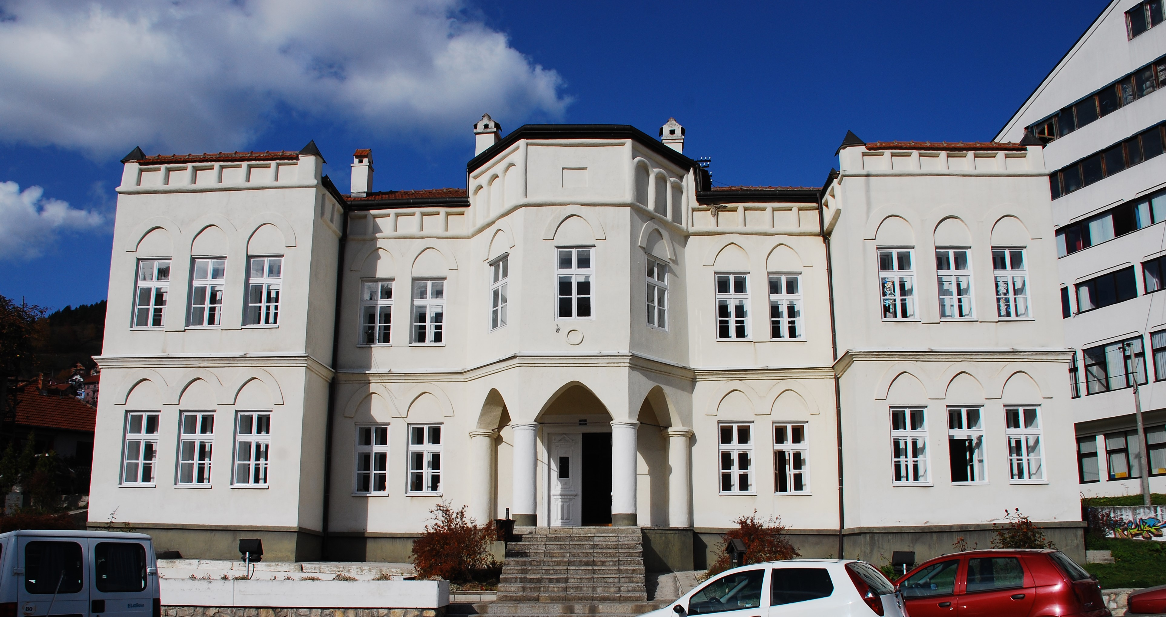 The old Municipality building in Nova Varoš